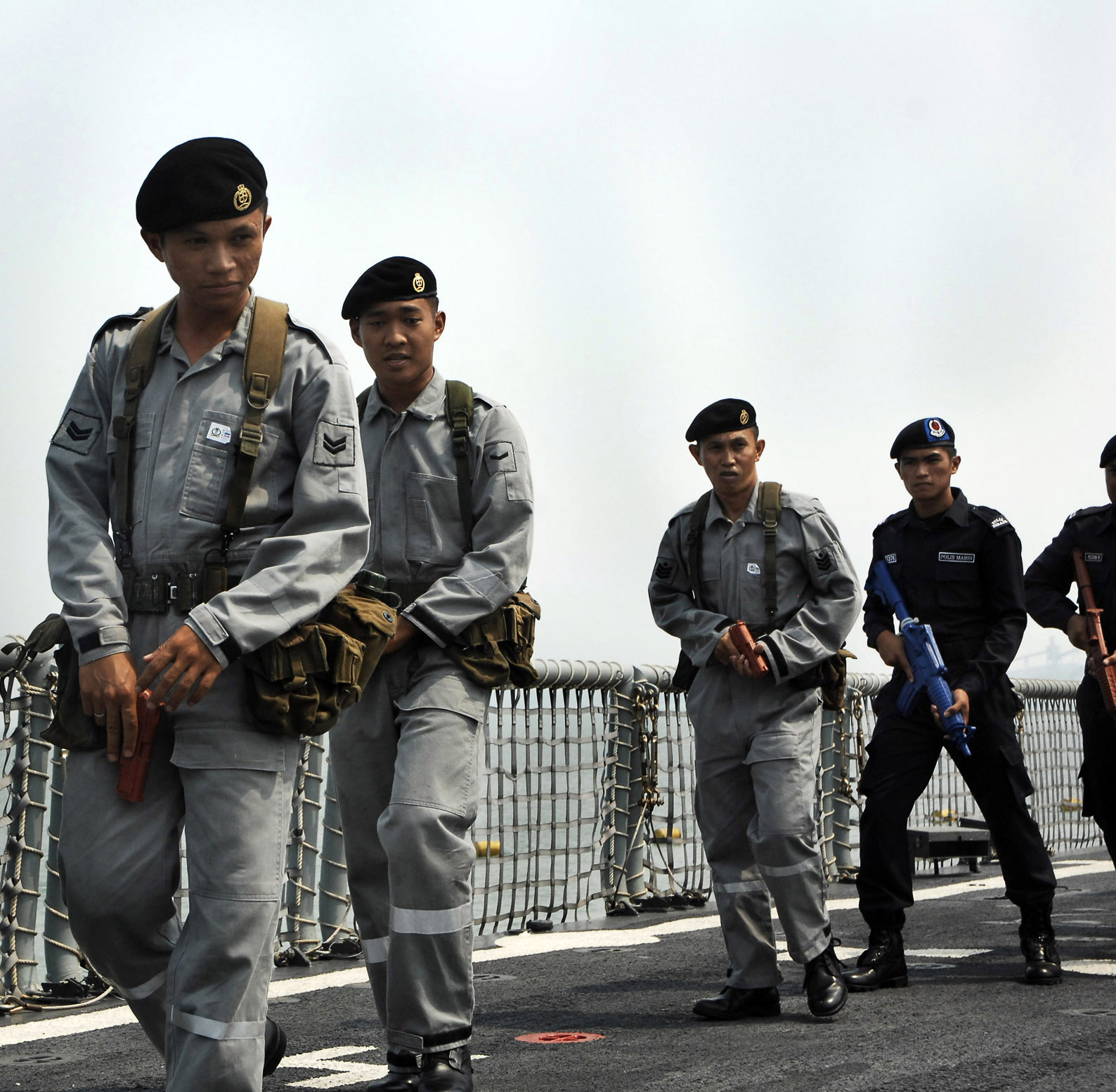 Personnel from the Royal Brunei Navy during a Cooperation Afloat Readiness and Training (CARAT) 2009 visit, board, search and seizure training exercise aboard the guided-missile frigate USS Crommelin (FFG-37). VIRIN: 090805-N-2725D-059